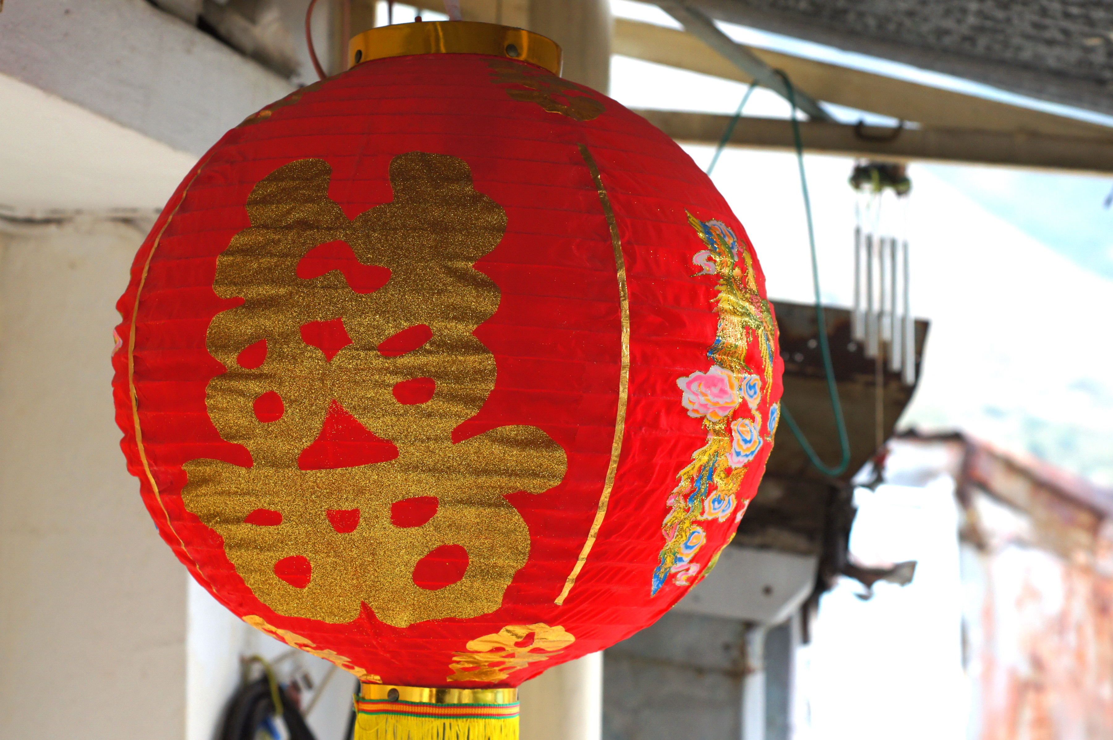 A decorative lantern with double happiness design.